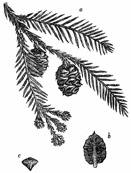 Sequoia sempervirens (drawing of several piece details) – a, Branch with green cones and male catkins; b, Section of cone; c, Scale of cone. All slightly reduced.